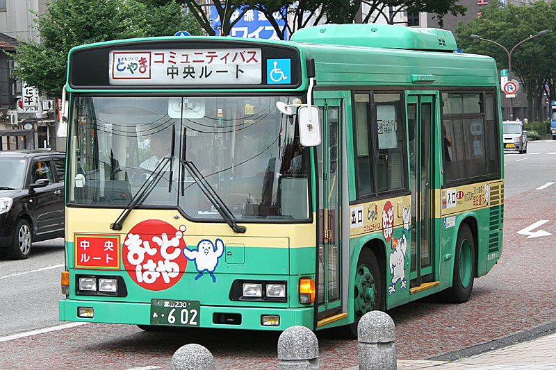 Toyama City Community Bus "Maidohaya" Chuo route (Hino Rainbow HR / Hino Body) in Toyama, Toyama, Japan